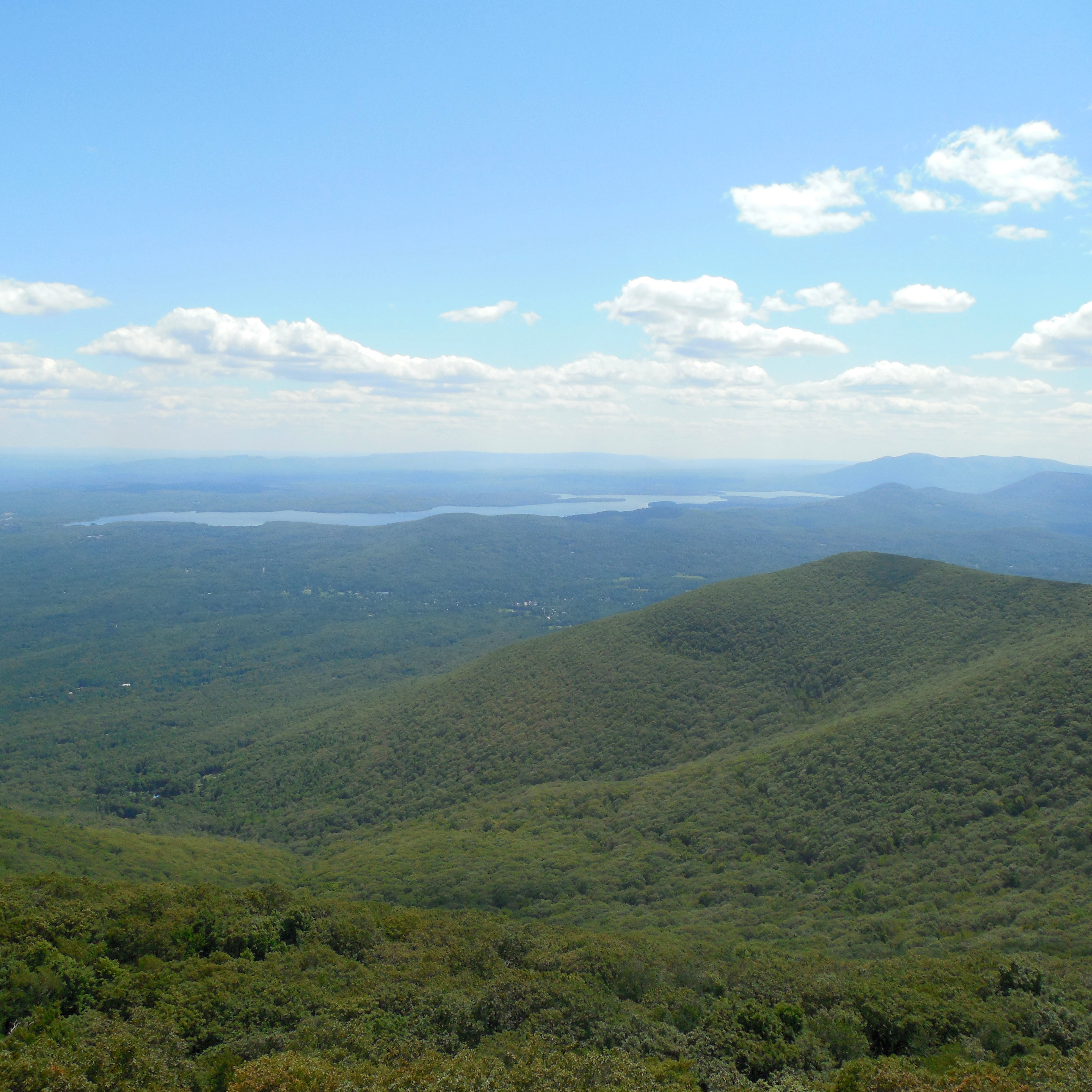 View of Ashokan Reservoir (to the southwest) from the Overlook Mountain near Woodstock, New York, July 2015